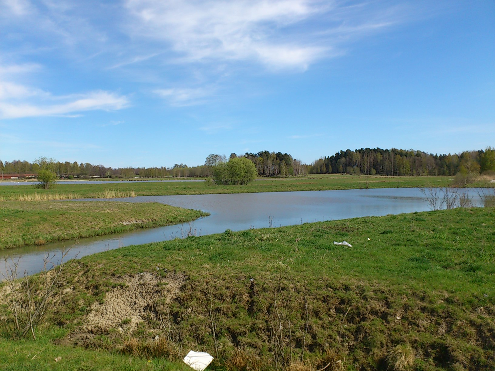 The nature reserve Boglundsängen, Örebro, Sweden